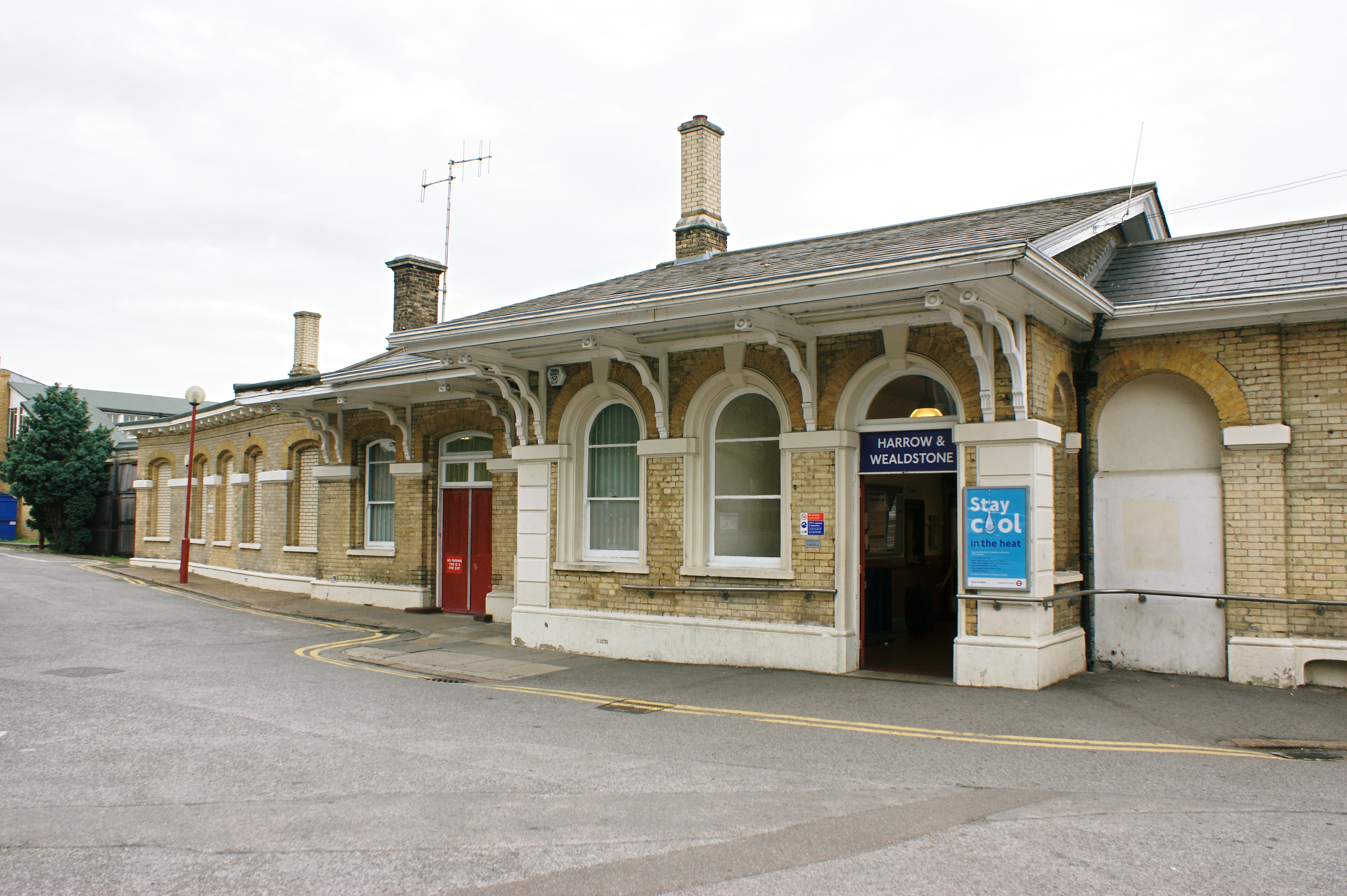 Harrow & Wealdstone railway station, 07/08.